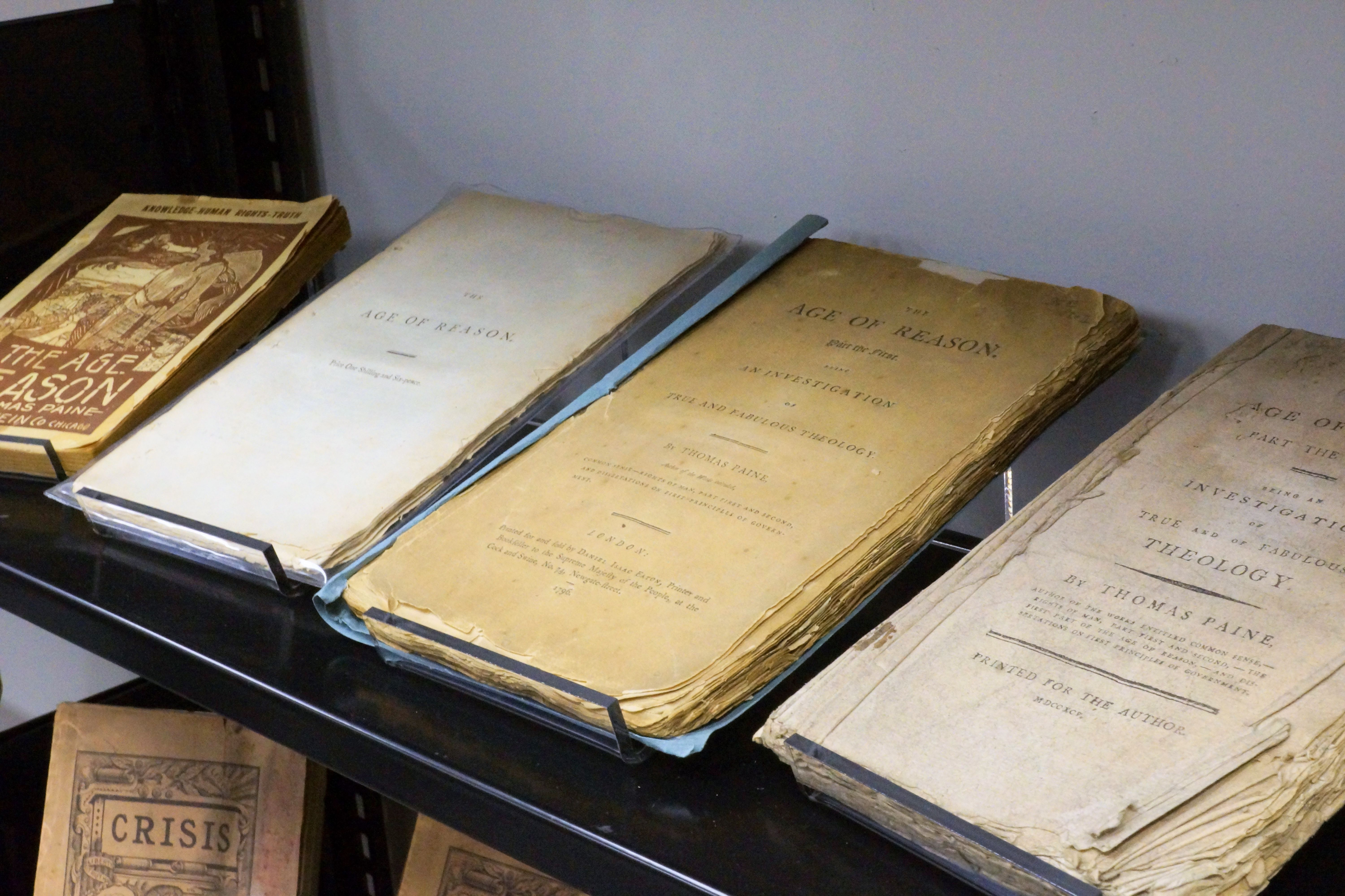 Several early copies of "The Age of Reason" by Thomas Paine. These are held by the Center for Inquiry library, rare book room, in Amherst, New York. Photographed June 22, 2012 with permission.